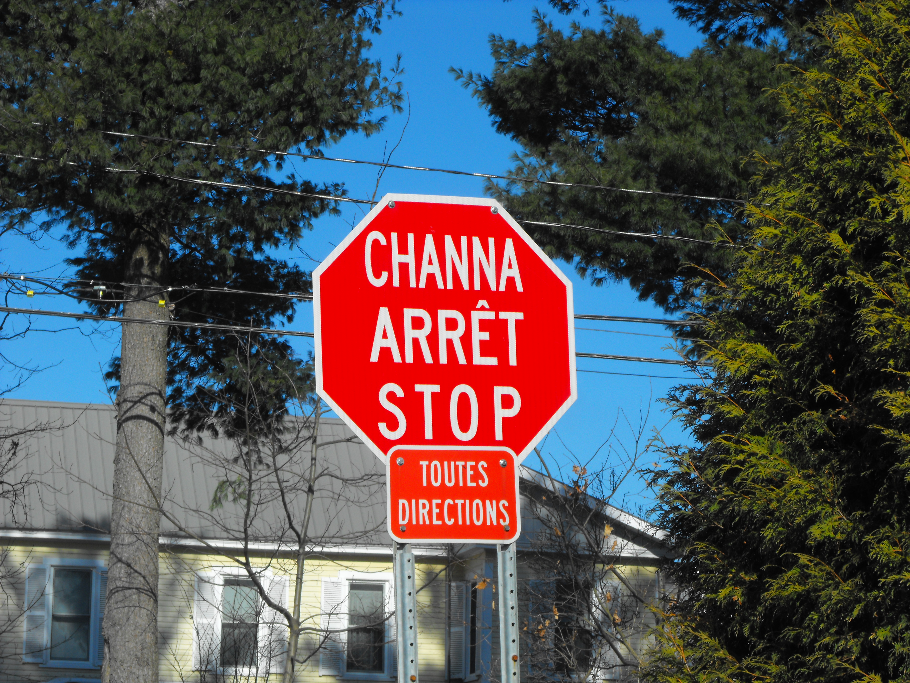 Stop sign in French, English, and Abenaki.